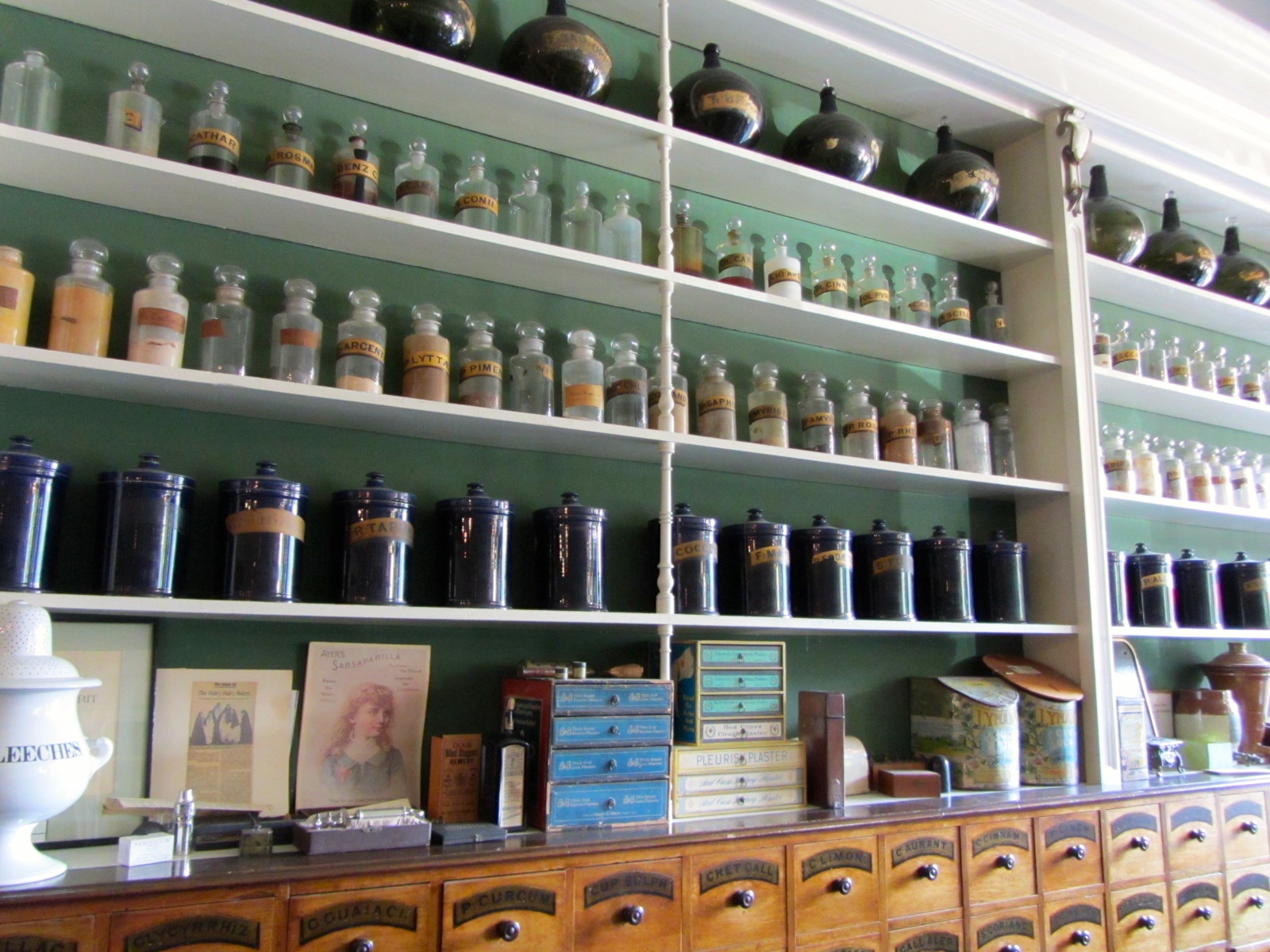 Ancient Apothecary Organized Shelves